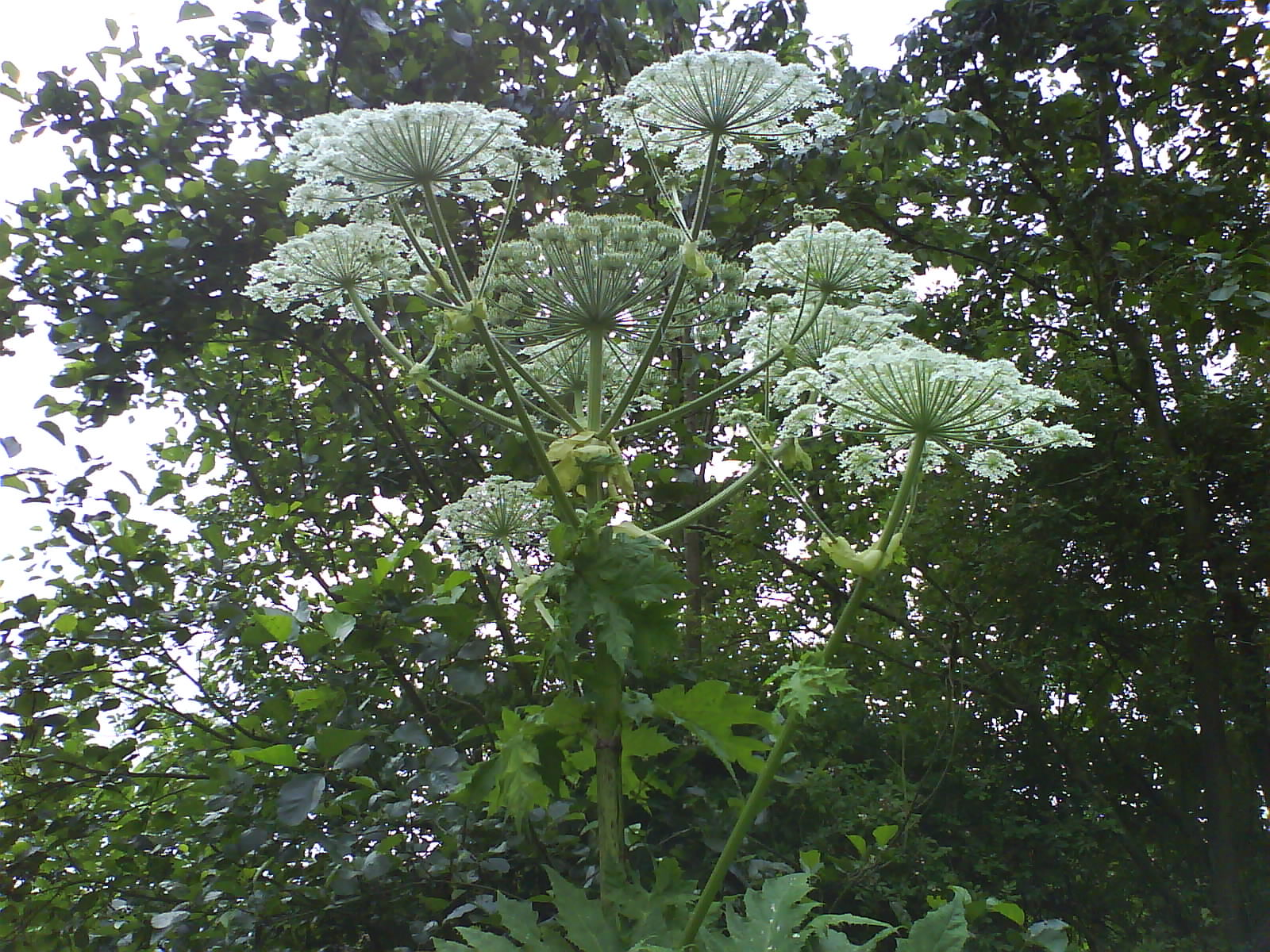 Giant hogweed in Drinkwater Park. This specimen is about eight feet tall.